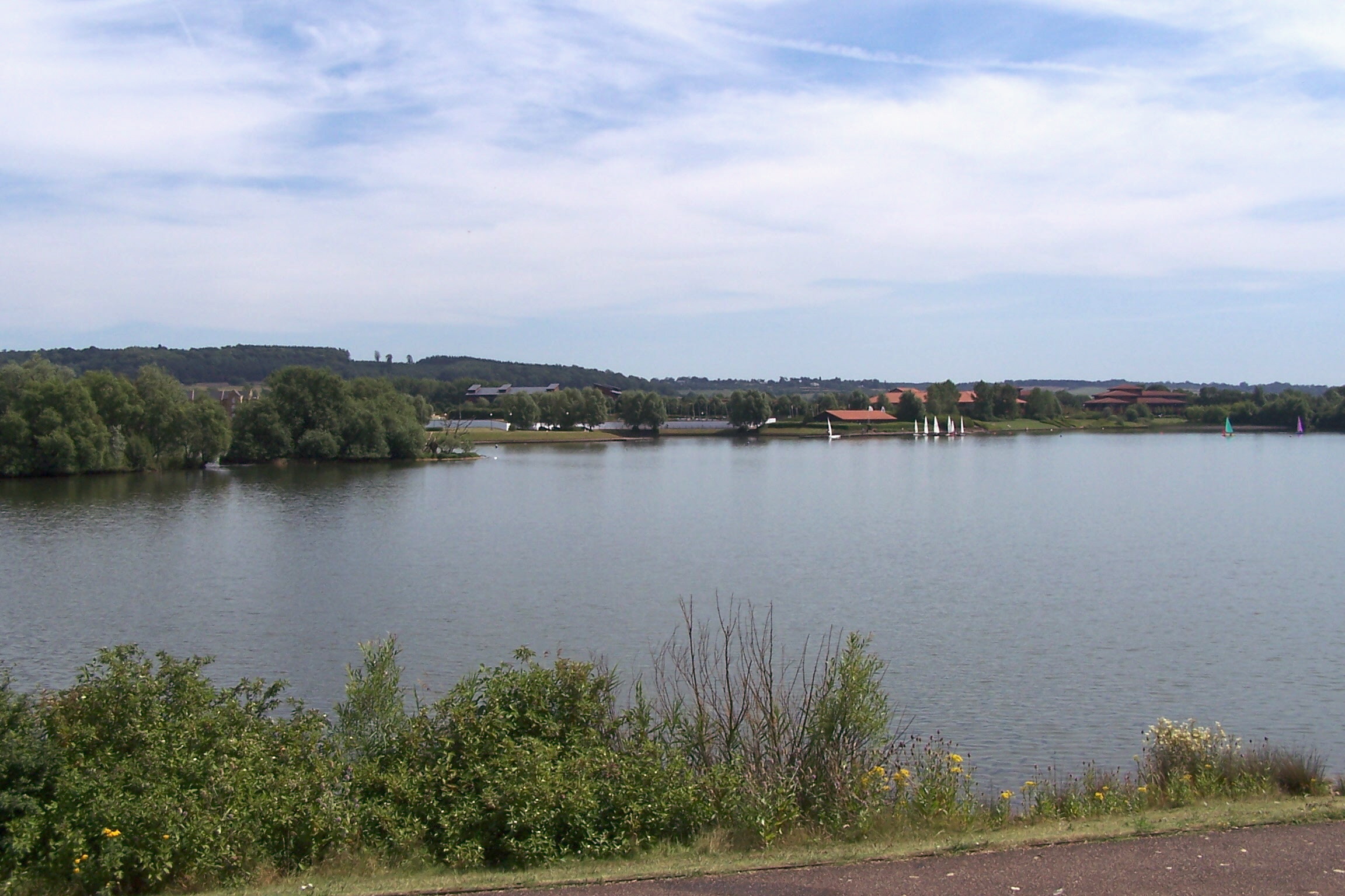 Caldecotte Lake in Milton Keynes, seen from Bletcham Way